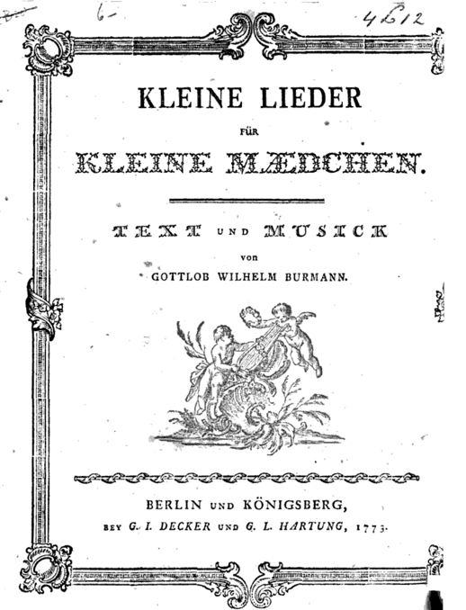 Gottlob Wilhelm Burmann, Kleine Lieder für kleine Mädchen (1772). Title page.